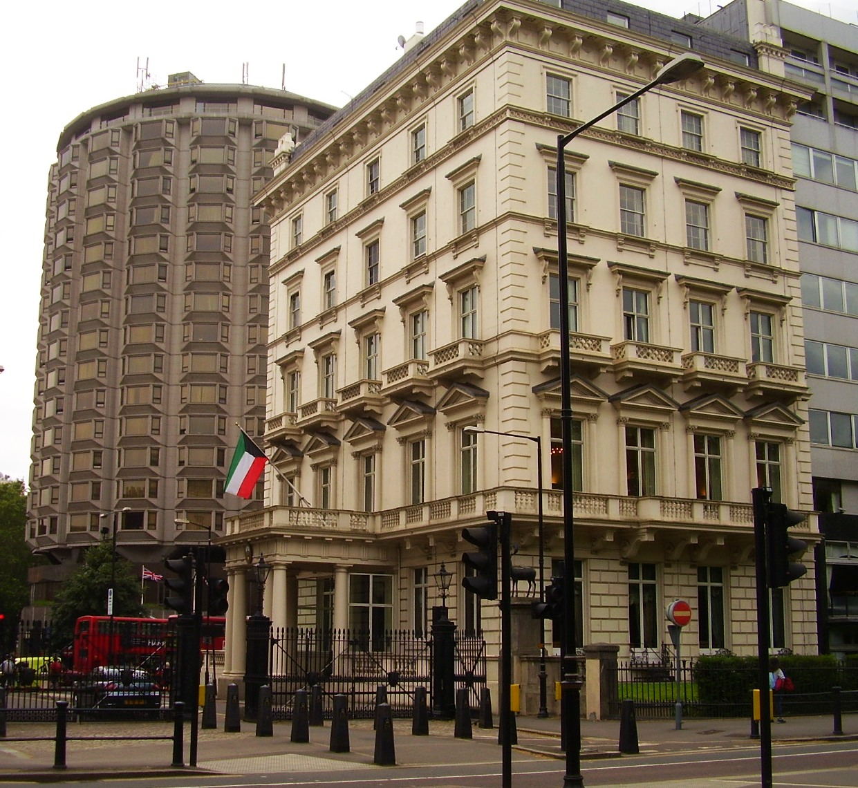 Embassy of Kuwait in London, taken by Barney Jenkins in June, 2008